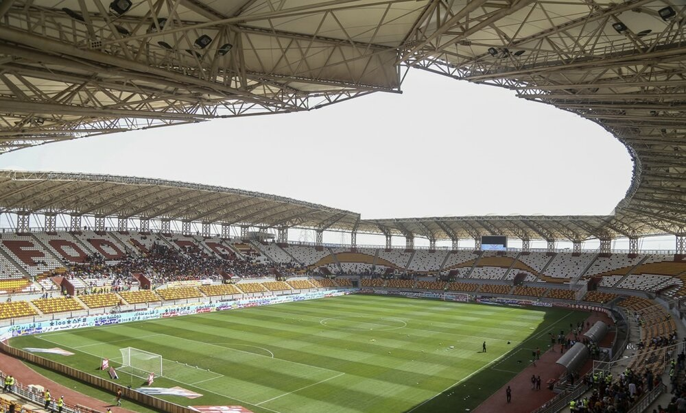 Foolad-Sepahan Persian Gulf Pro League match at Foolad Arena